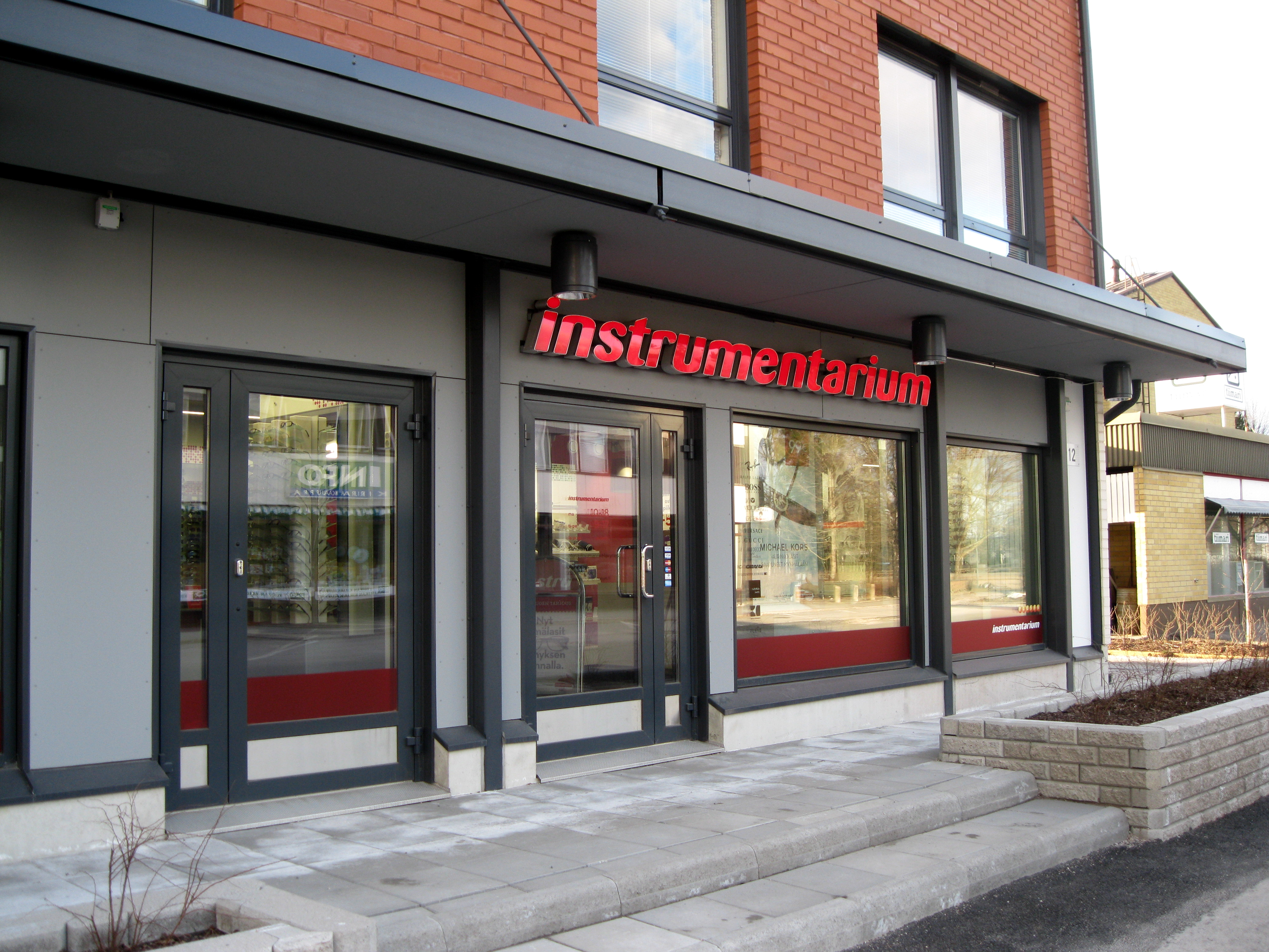 Instrumentarium in Kurikka, Finland.